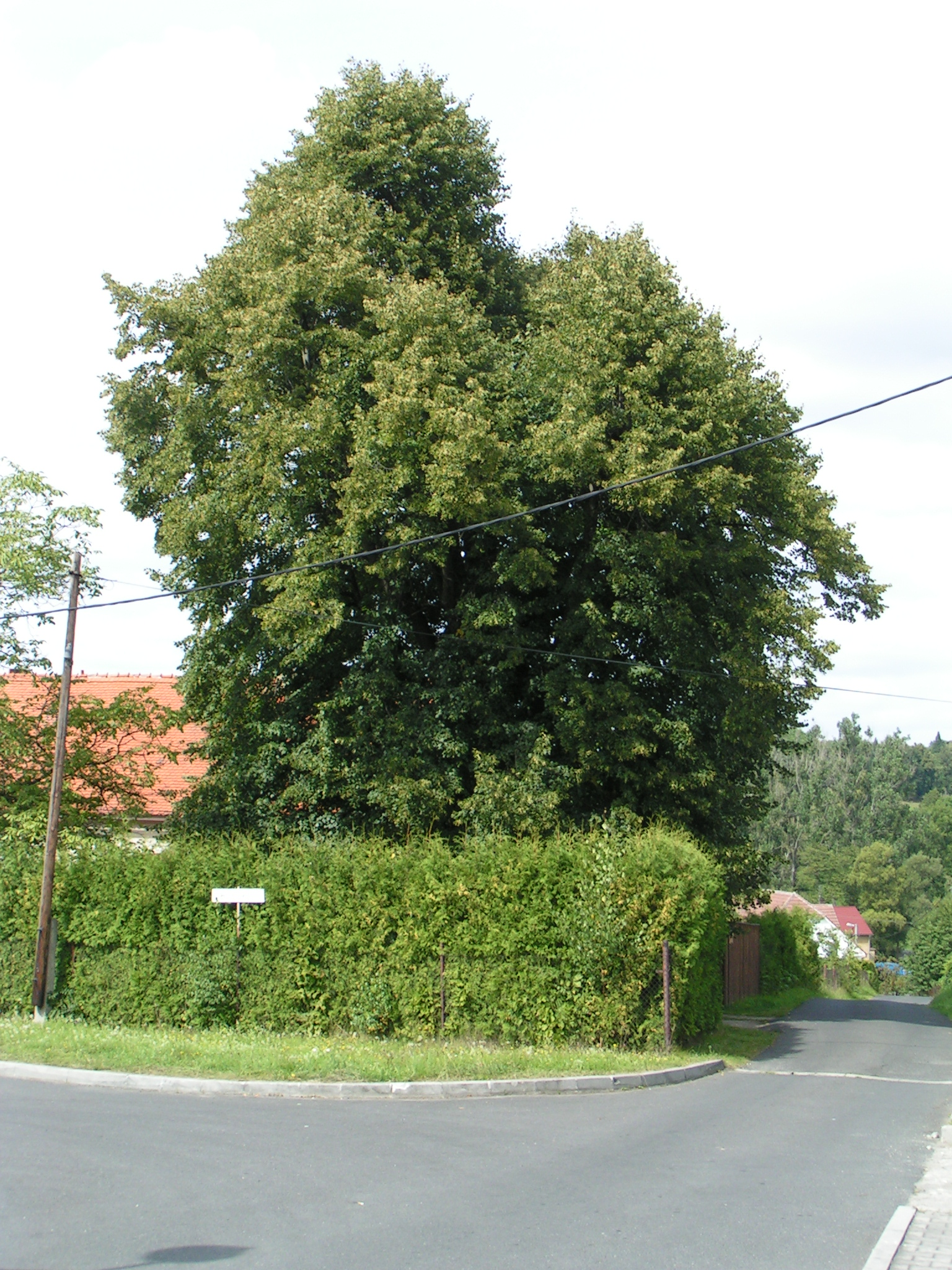 Česká Kamenice, Dolní Kamenice - the famous Tilia cordata, from the south